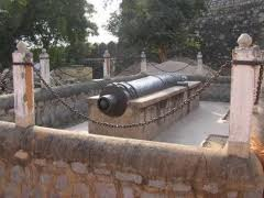 jhansi